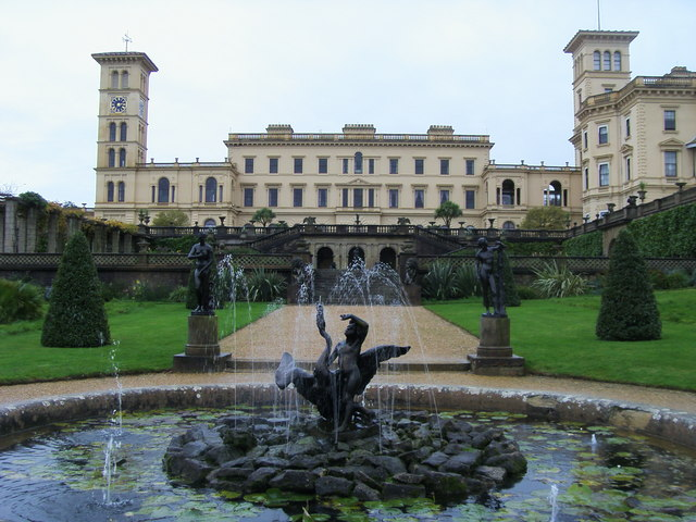 Osborne House Osborne House - Queen Victoria's palace by the sea